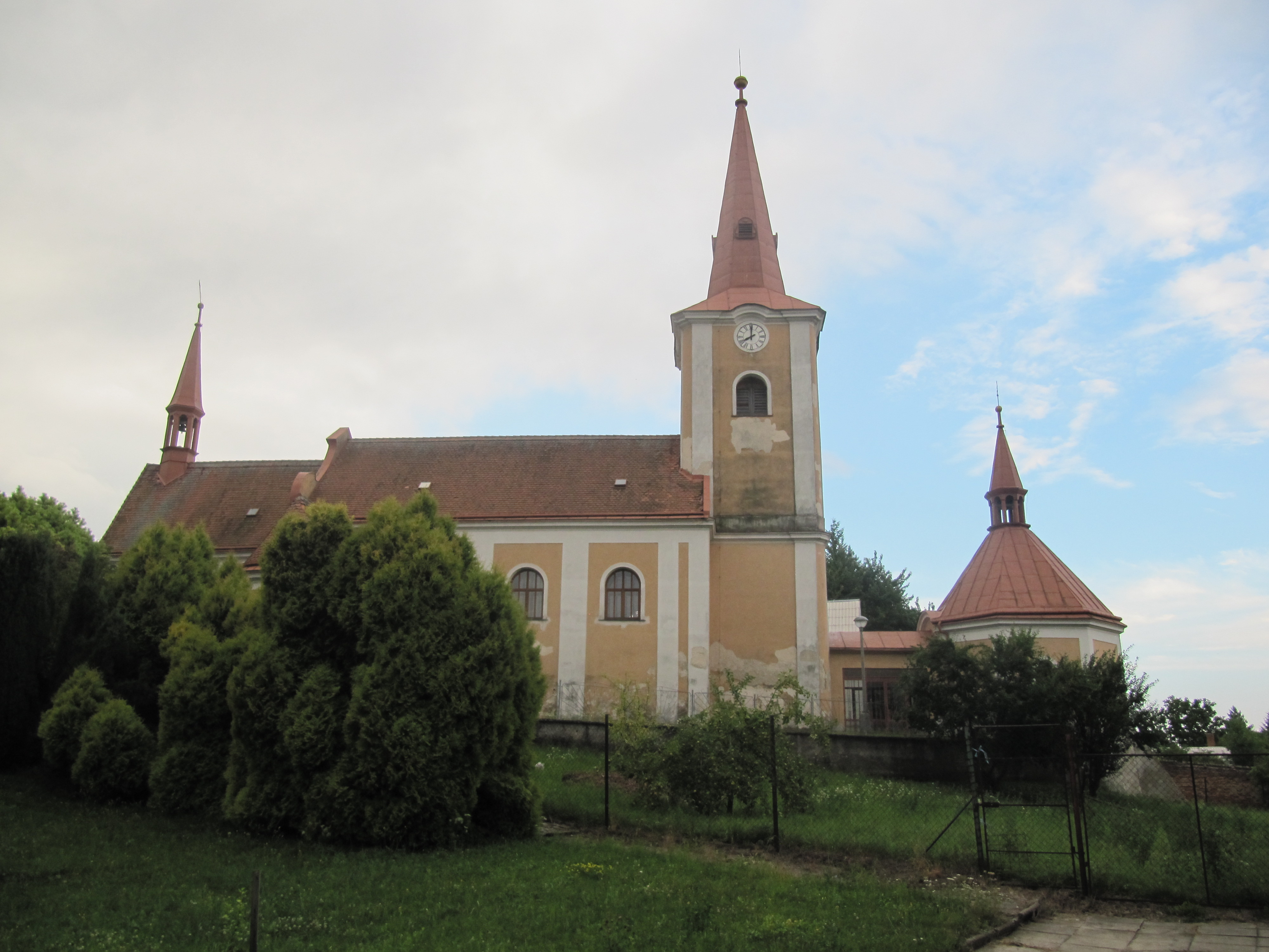 Pačlavice, Kroměříž District, Czech Republic. Church of Saint Martin.